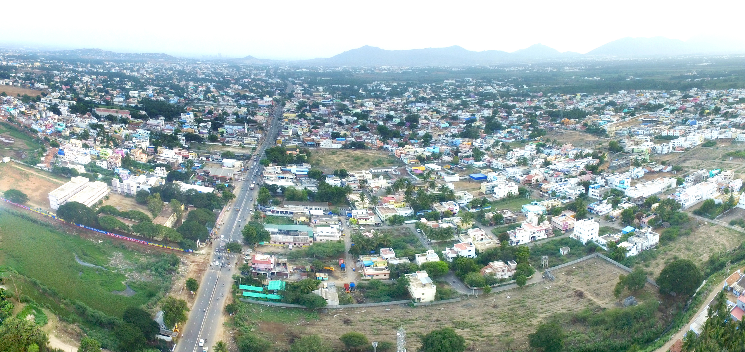 Kuniyamuthur Panorama view from kuruchi kulam and govt. hr. sec. school